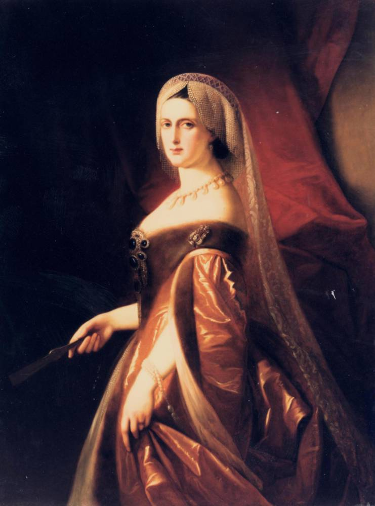 Duchess Marie of Leuchtenberg (1819–1876), née Grand Duchess Maria Nikolaevna of Russia.